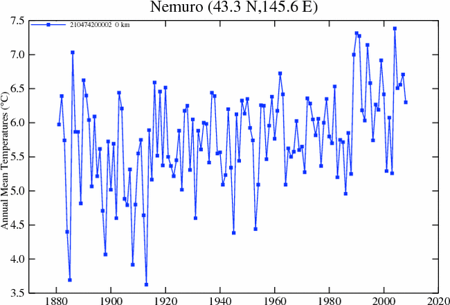 Climate graph of 1880 2008 air average temperaturas of Nemuro, Japan.